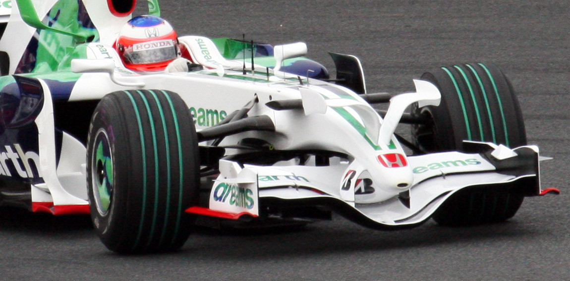 Formula One 2008 Rd.16 Japanese GP: Bridgestone Make Cars Green tyres